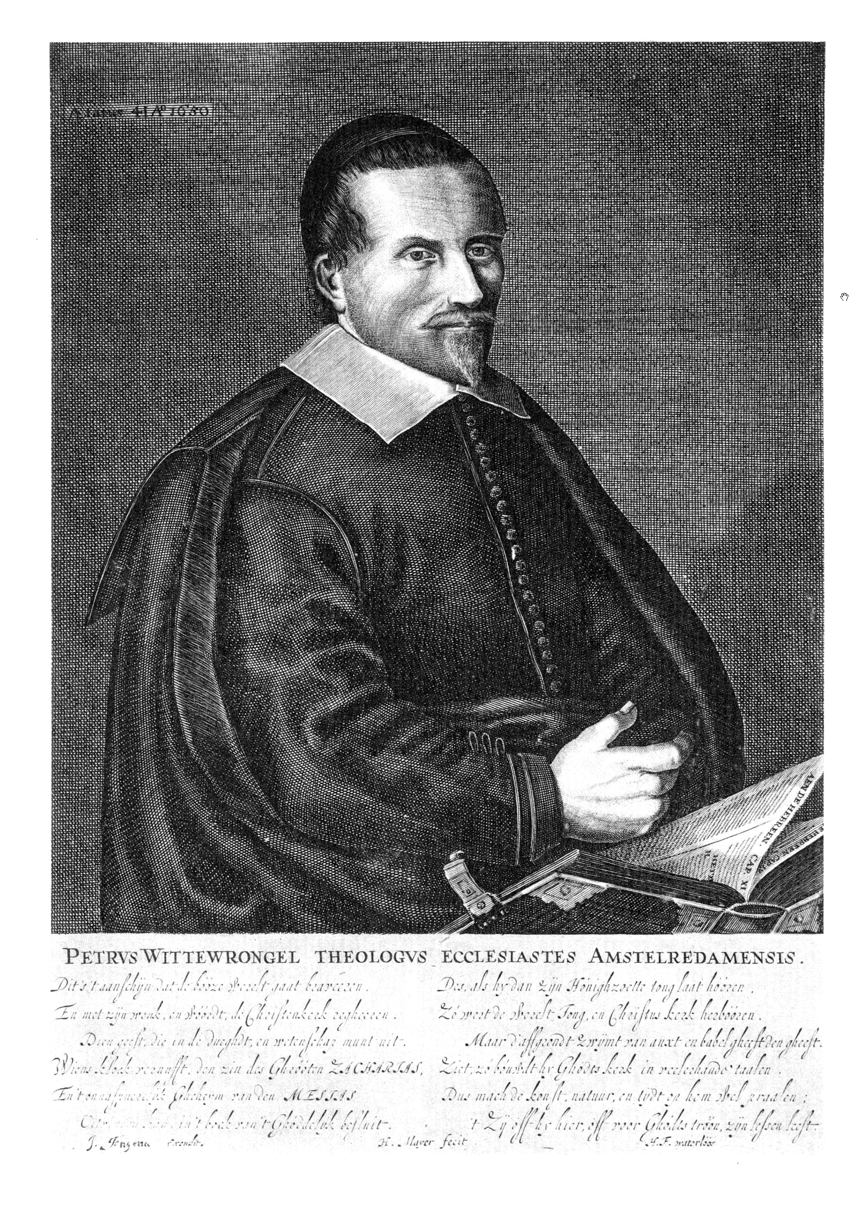 Petrus Wittewrongel (1609 / 07-12-1662) 15 X 12.9 cm